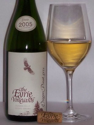 Bottle of Eyrie 2005 Pinot Gris. Taken by self on April 2nd, 2007